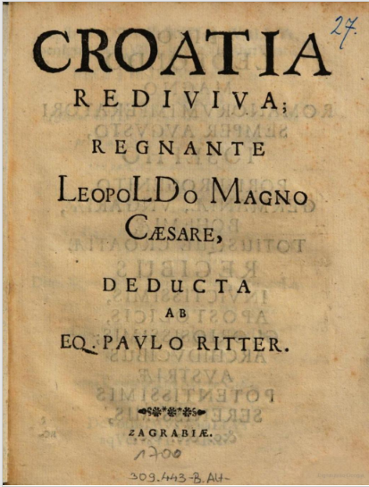 Cover of 1700 publication of Croatia Rediviva